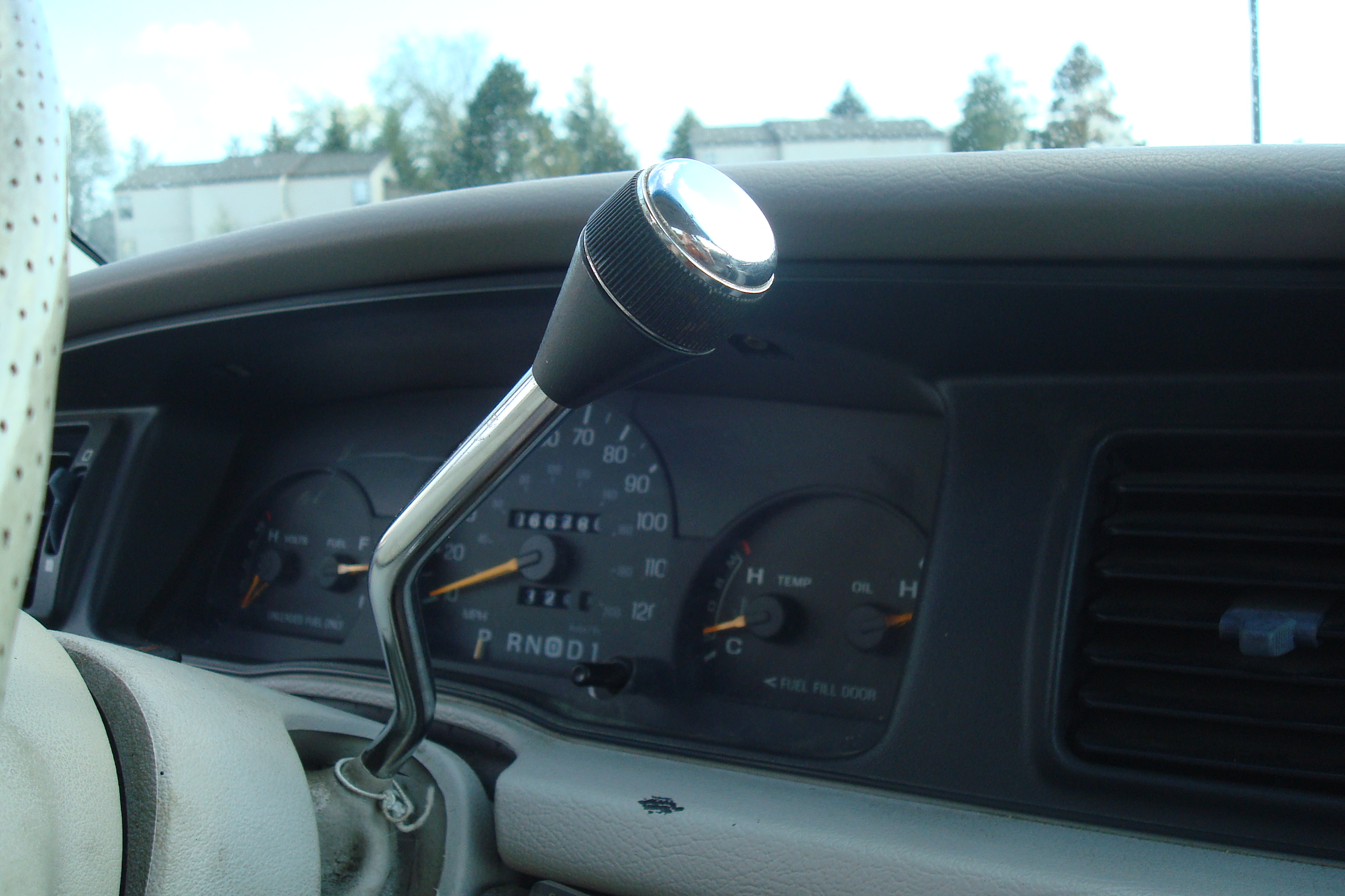 Colunm shift lever in a 1992 Ford Crown Victoria